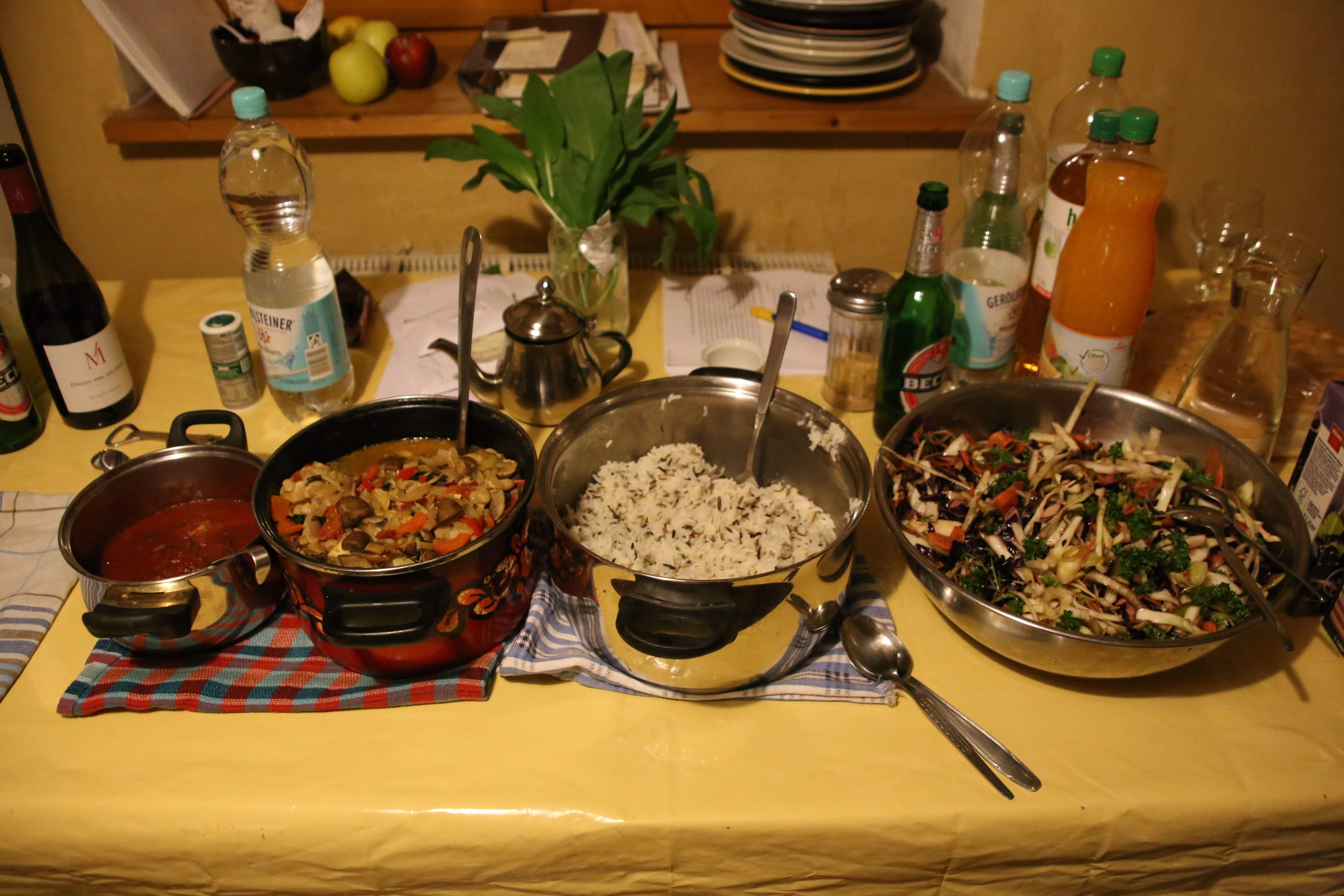 A vegetarian meal for 16 people prepared by attendees of LGM 2014 (including Ludiving Loiseau, Gijs de Heij, Manuel Schmalstieg) under the supervision of ginger coons.